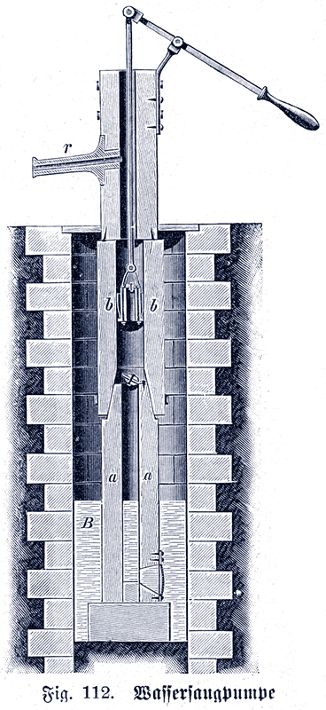 water pump